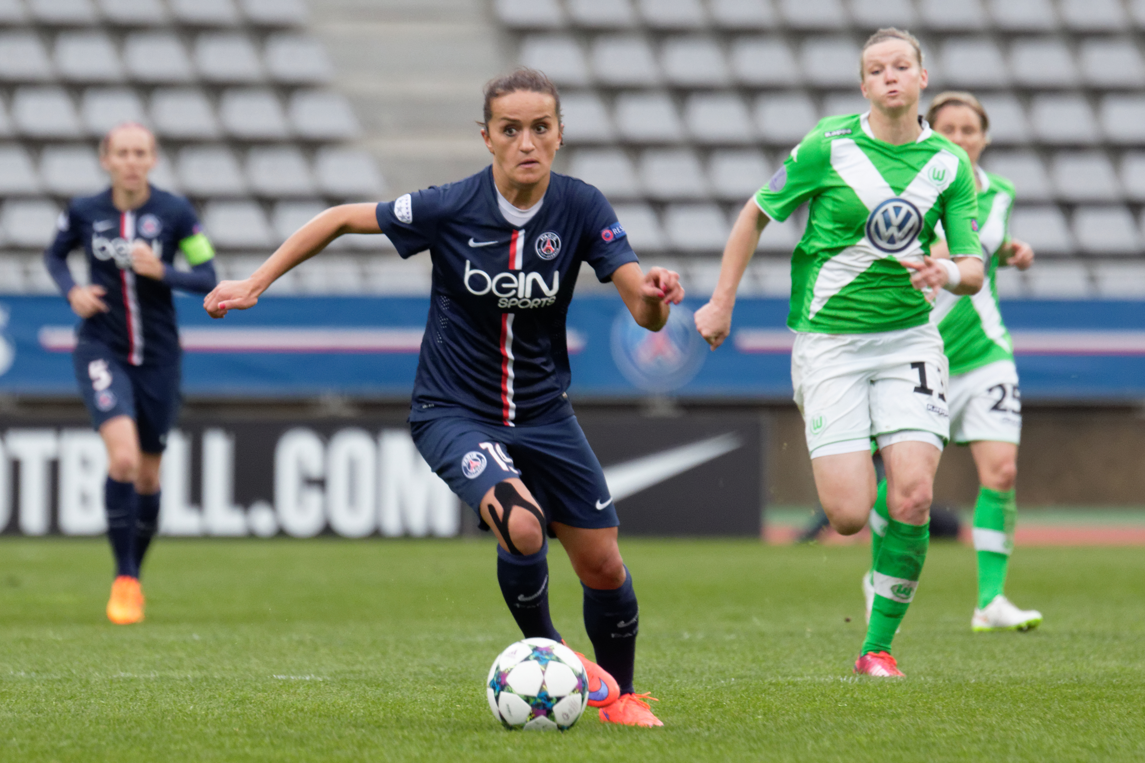 UEFA Women's Champions League, PSG - Wolfsburg, 26 April 2015.